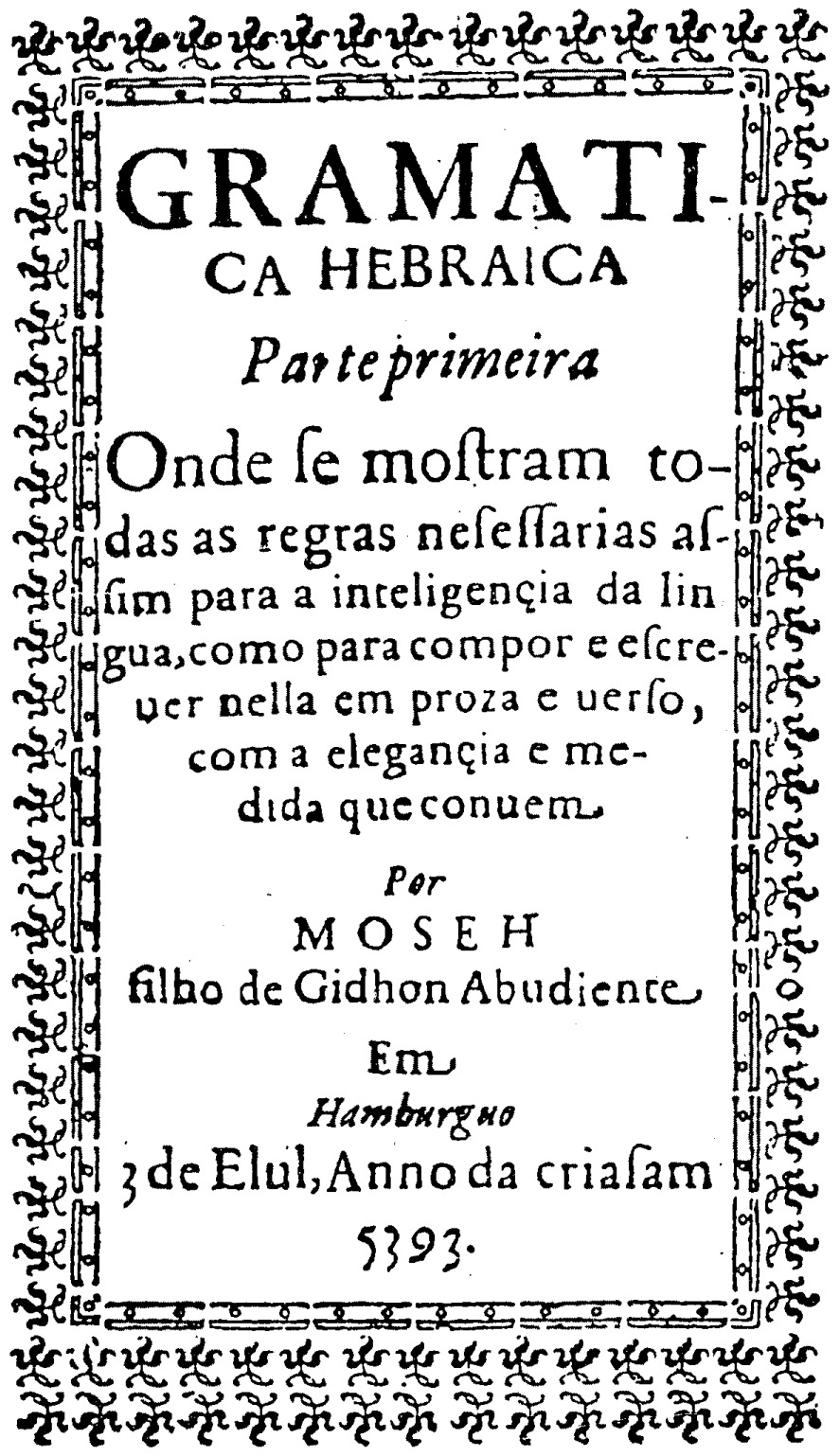 Titel von / Title of Moses Gideon Abudiente Gramatica Hebraica, Hamburg 1633